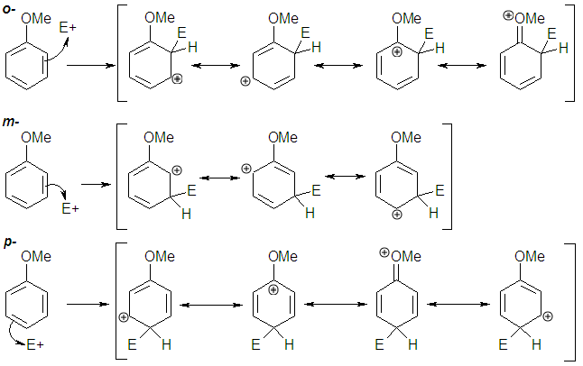 Description: EAS ortho/para mesomer director. Source: Myself using ISIS/Draw. Date: 29 January 2007.